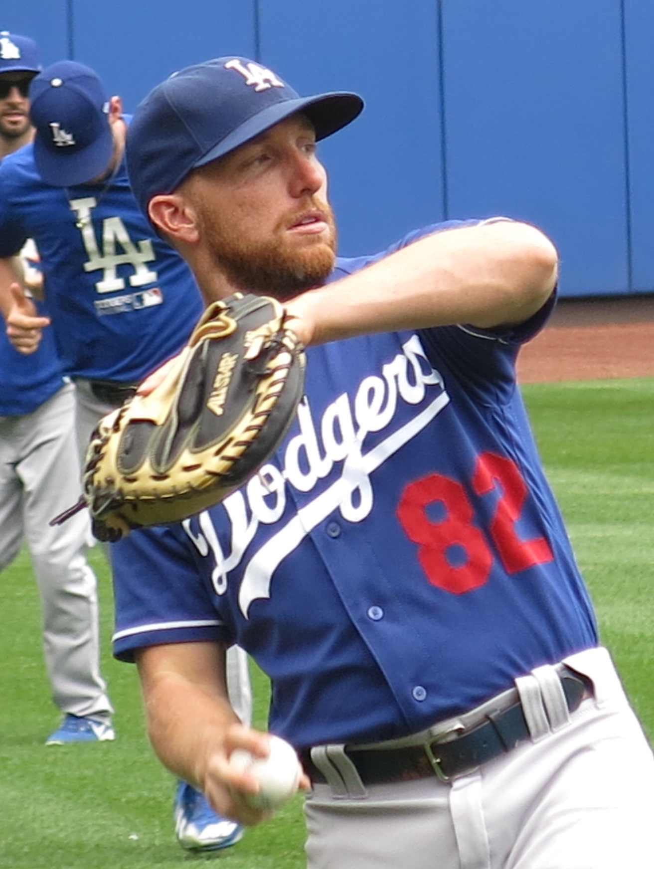 Steve Cilladi on August 5, 2017